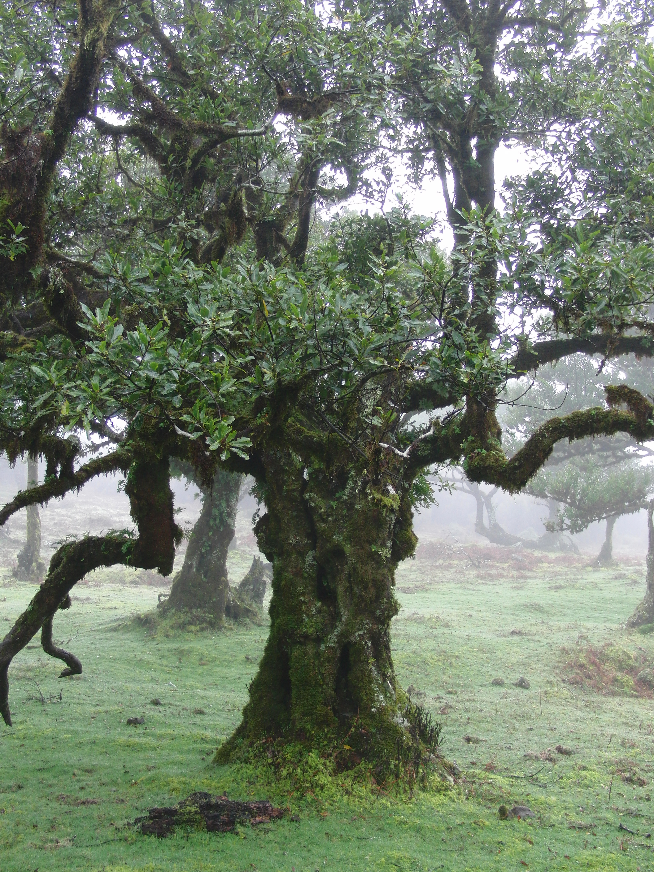 Ocotea foetens in natural relic habitat (Madeira)